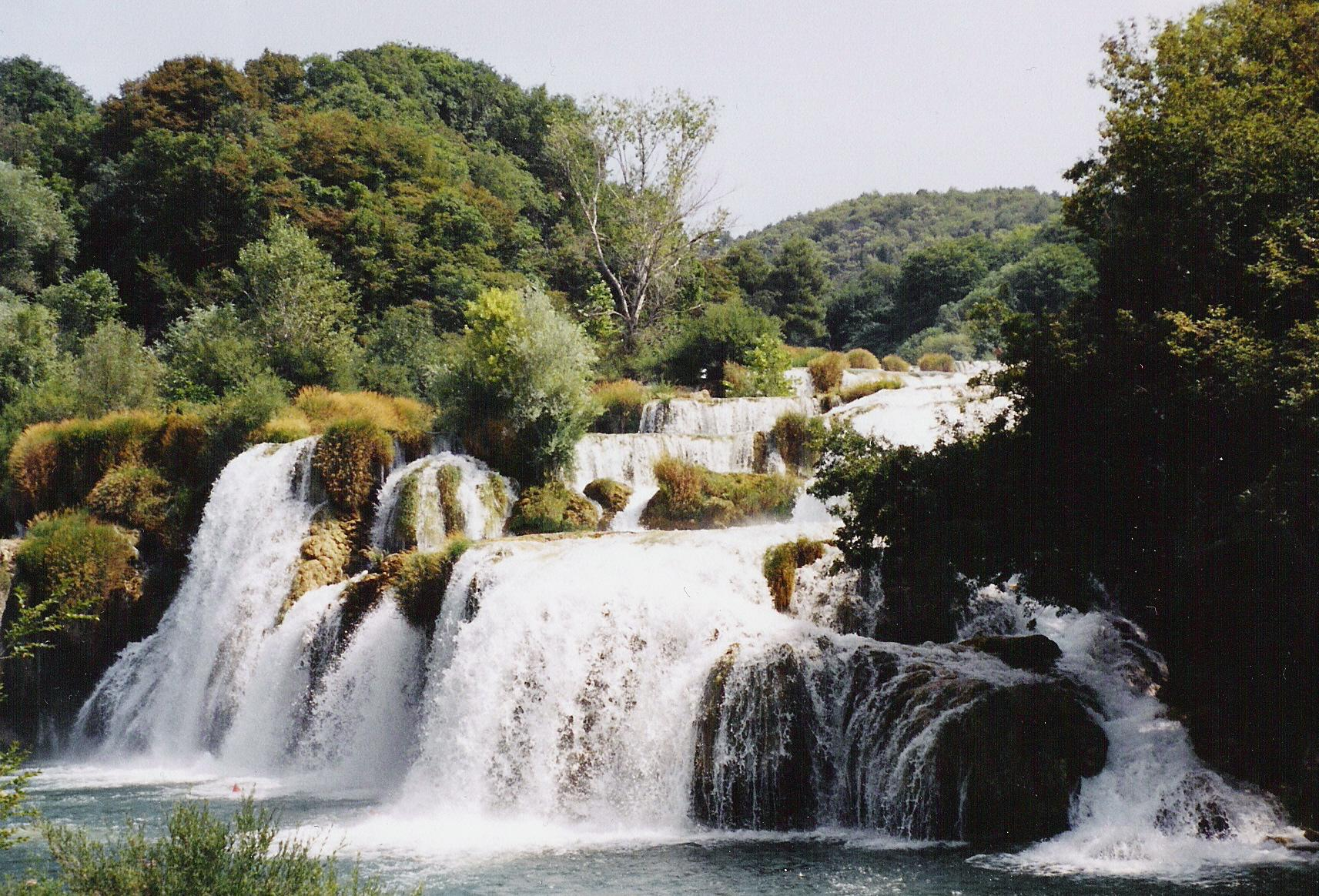 Waterfall of Skradin in Krka National Park, Croatia.